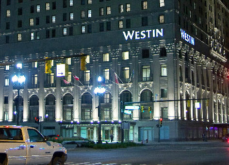 Hotel at night